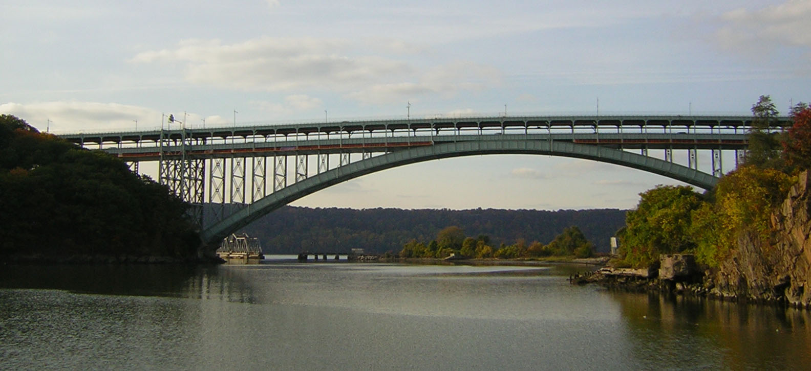 Full span of Henry Hudson Bridge, from a Circle Line boat approaching from the east, late on a mostly sunny afternoon